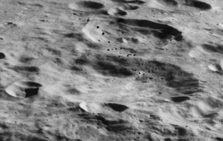 Oblique view of Gerasimovich crater (below center) and Gerasimovich R crater (above right), on the far side of the moon, facing west. Black dots are blemishes on original.